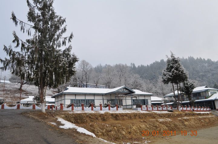 Scene of Vivekananda Kendra Vidyalaya Shergaon, West Kameng District 790001, Arunachal Pradesh